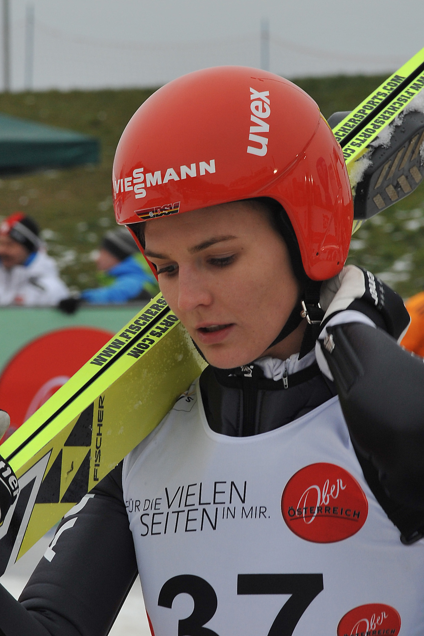 FIS Ski Jumping World Cup Ladies 14th World Cup Competition Normal Hill Individual Hinzenbach (AUT) Sun 2 Feb 2014: Ulrike Grässler